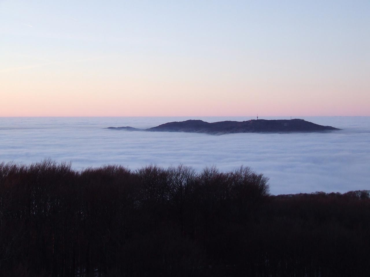 Galya-tető (964 m) seen from Kékes (1014 m)